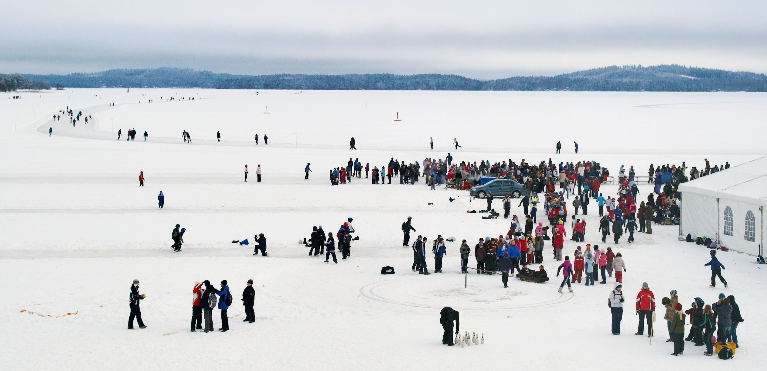 Finland Ice Marathon 2006 at Kuopio Harbour on Lake Kallavesi in Kuopio, Finland.